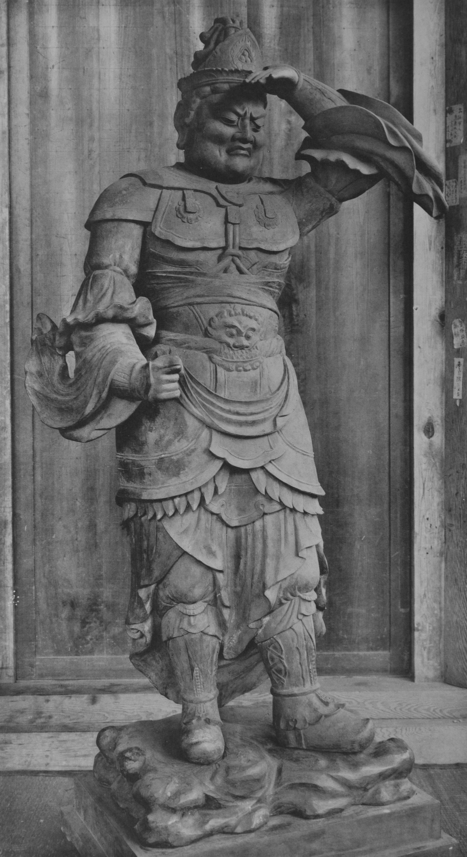 Kurama-dera, Kyoto, Japan